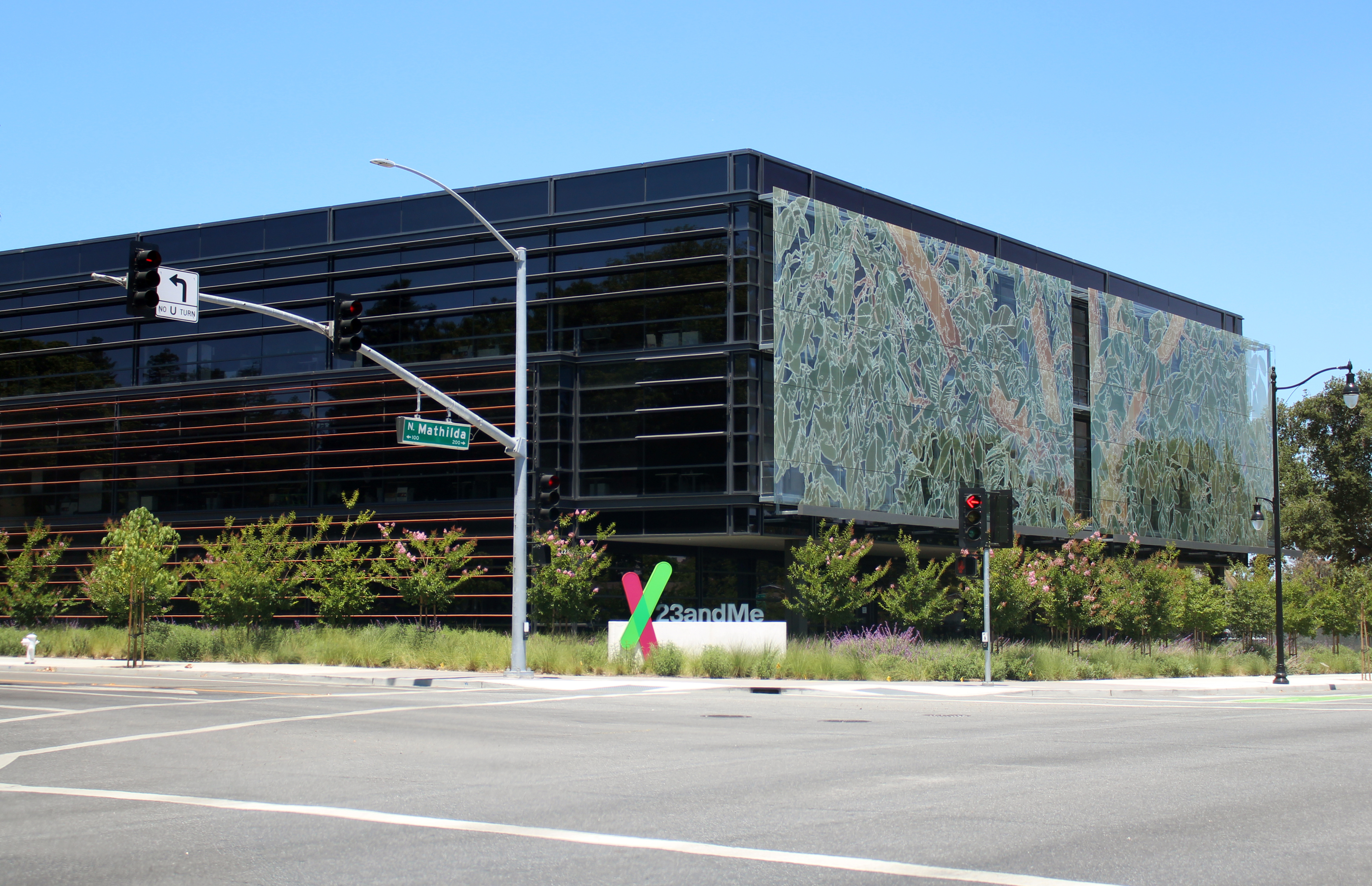 23andMe headquarters in Sunnyvale, California. Photographed on June 28, 2020 by user Coolcaesar.